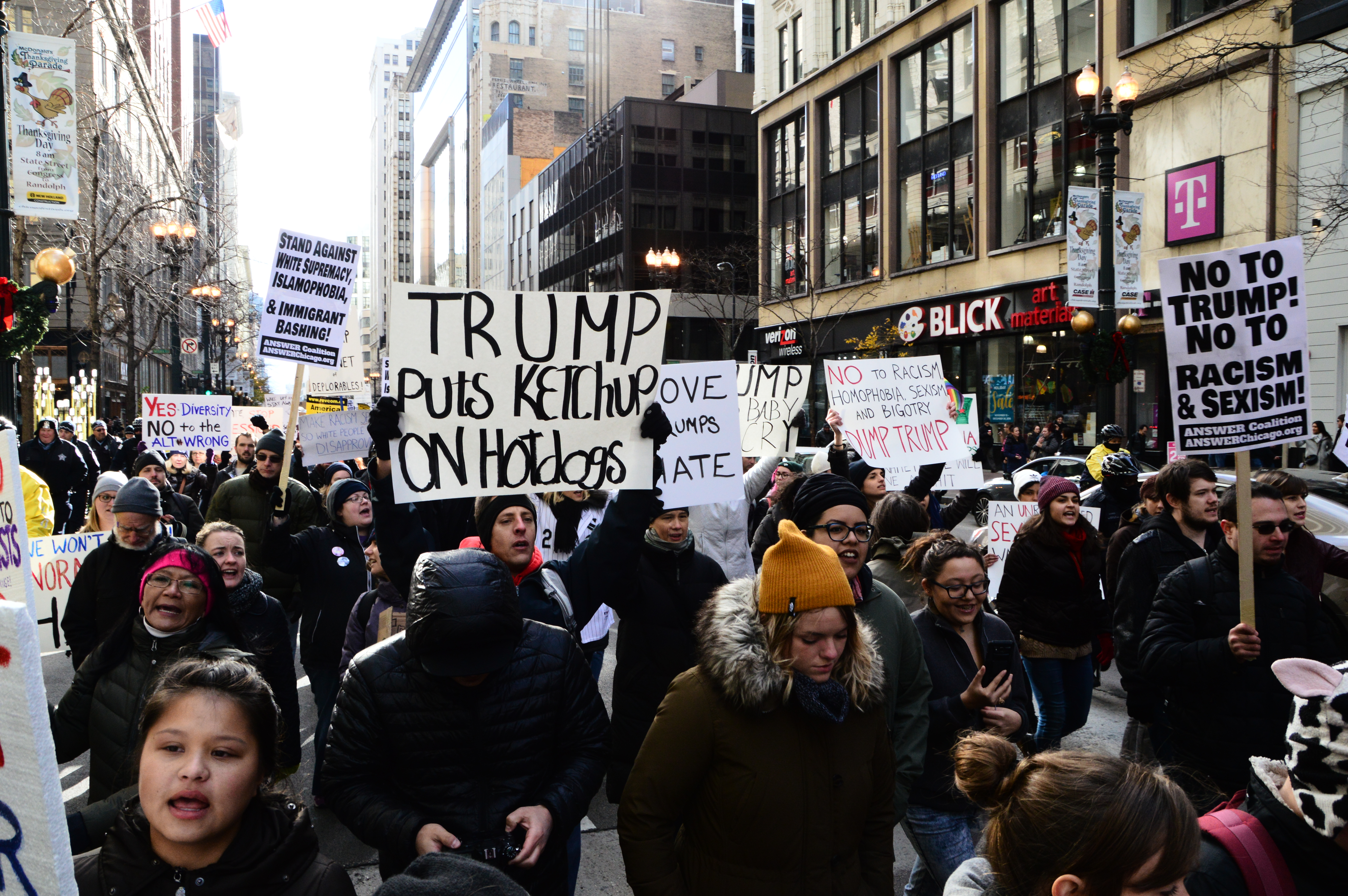 Federal Plaza to Trump tower, Chicago, IL November 19 2016